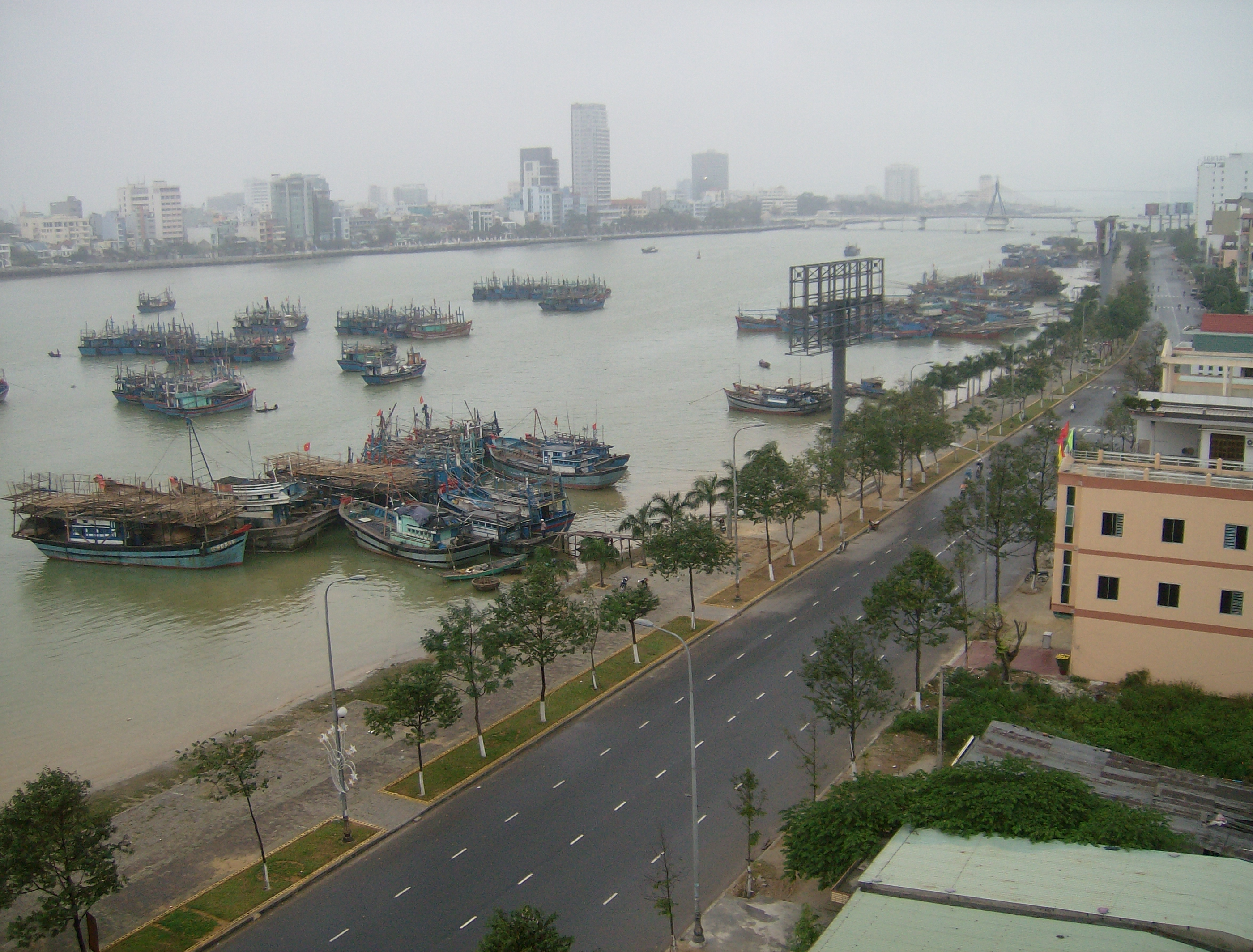 A foggy day in Da Nang, as seen from a hotel on the eastern bank of the Han River, looking north. At upper right is the Han River Bridge.